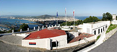 Princess Caroline's Battery in Gibraltar